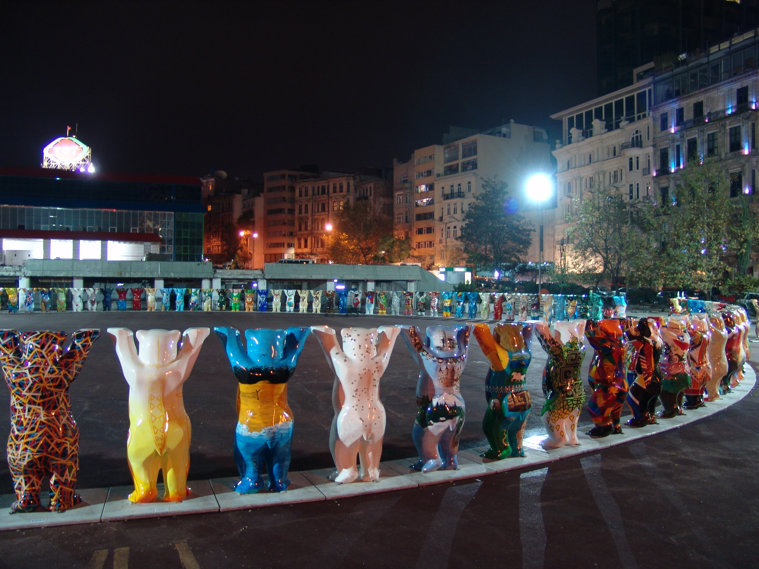 United Buddy Bears - Istanbul 2004/05